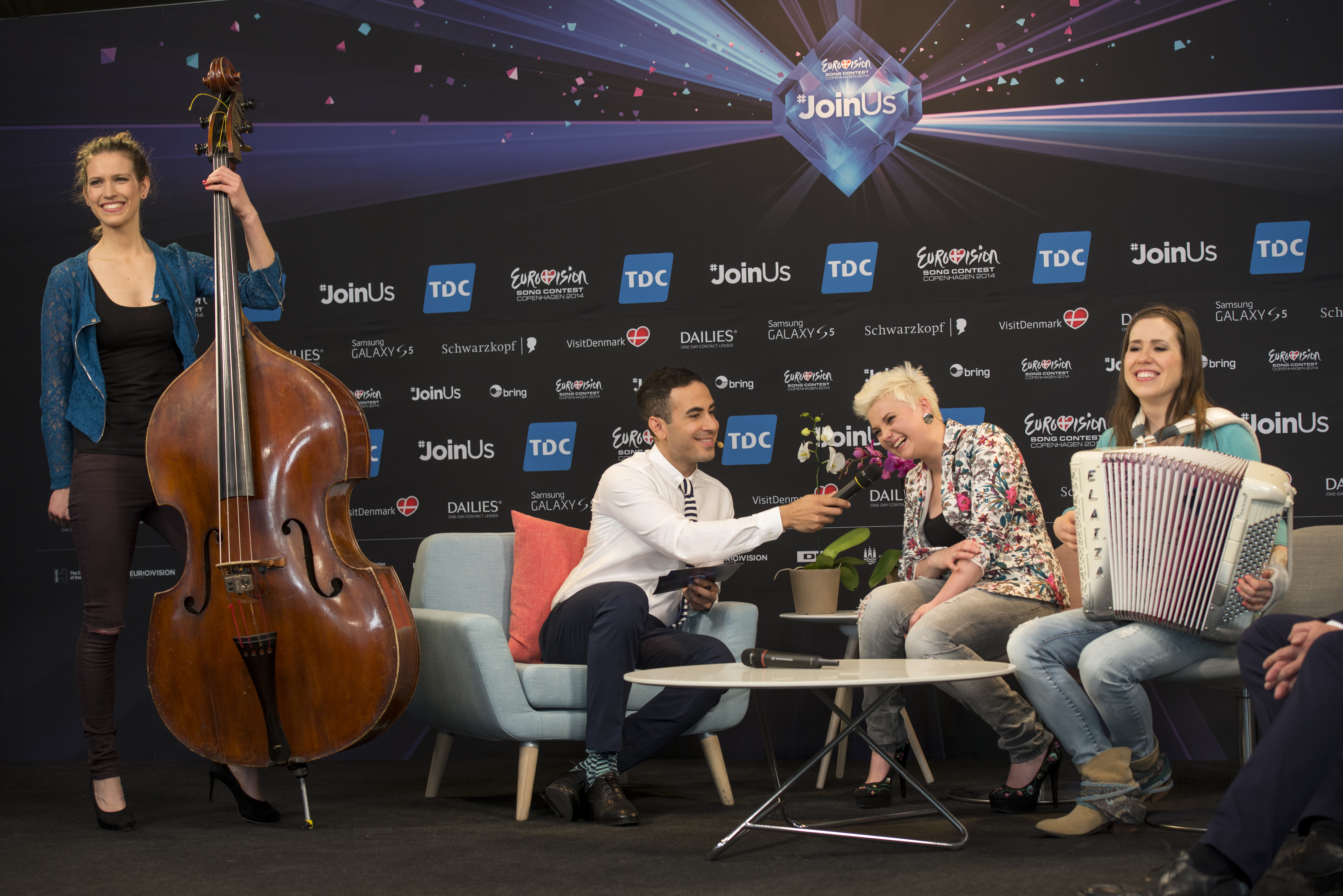 Elaiza at a Meet & Greet during the Eurovision Song Contest 2014 Copenhagen. (Help translate this text)